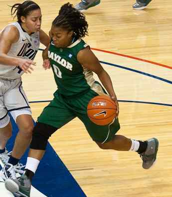 Odyssey Sims in the UConn versus Baylor game XL Center Hartford, CT November 16, 2010